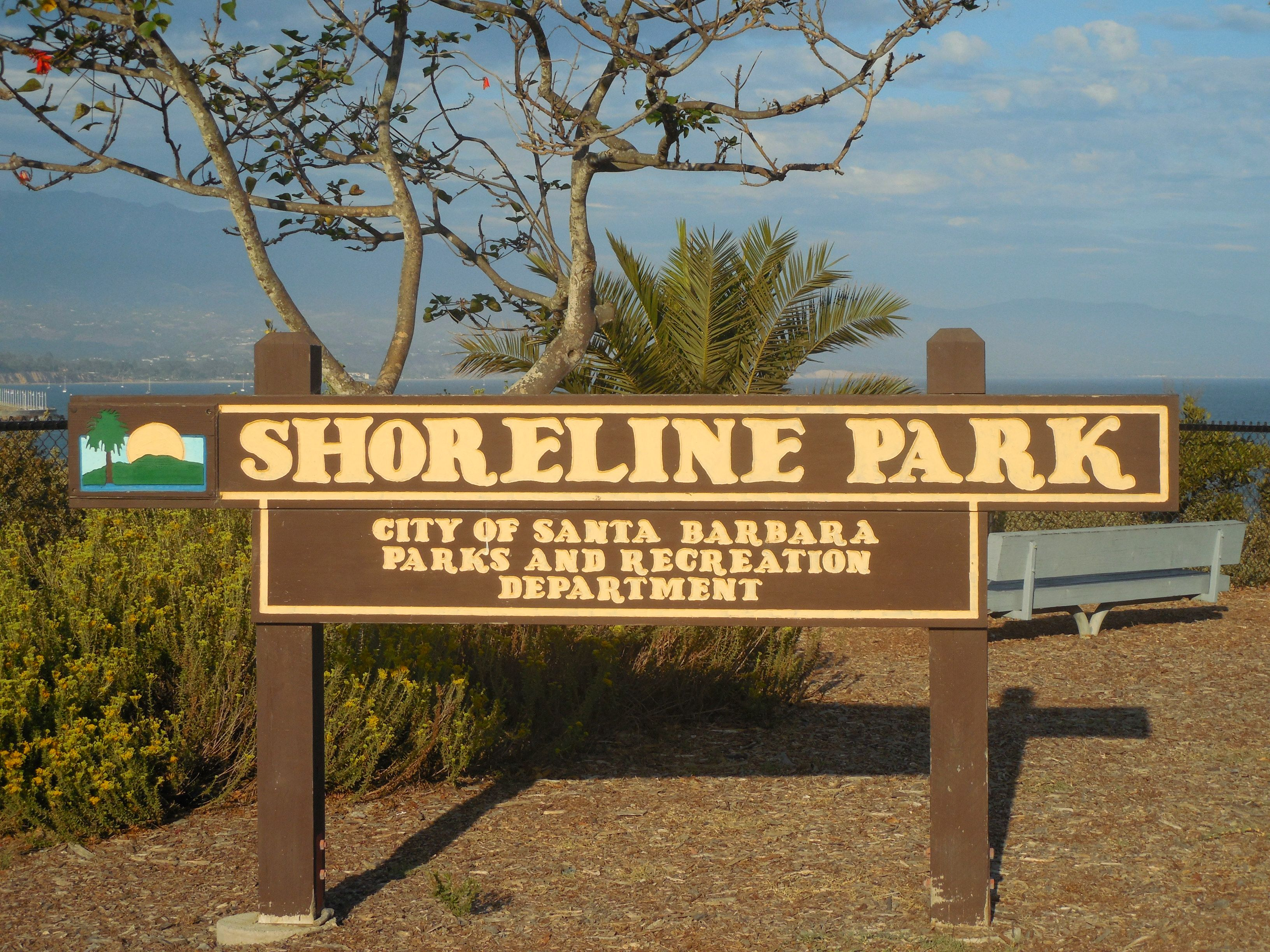 Municipal signage of Shoreline Park in Santa Barbara, California, Sep 2014